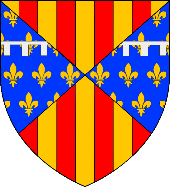 Escudo de Armas de la casa de Prades